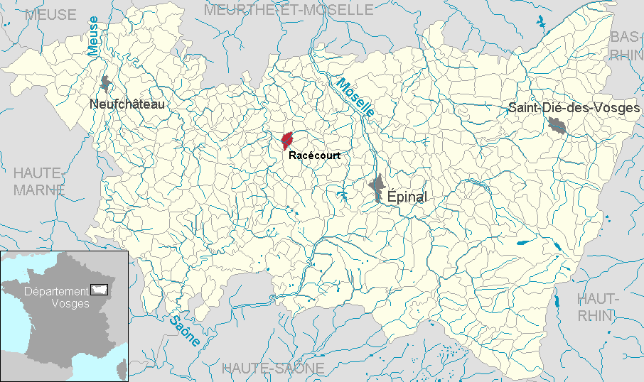 Racécourt in the department of Vosges, Lorraine, France